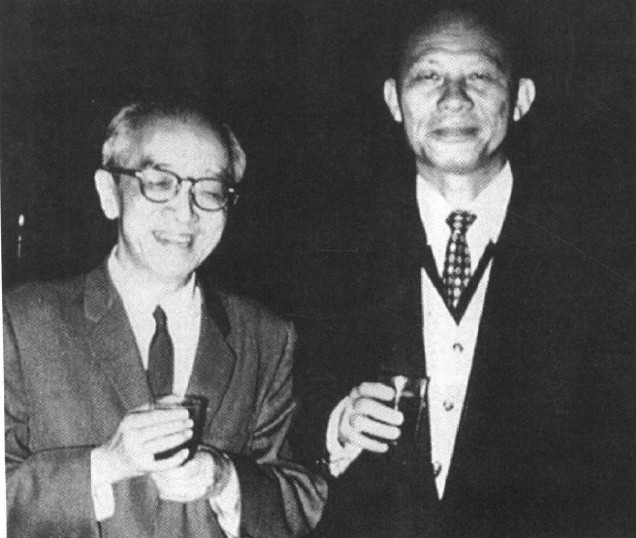 Hu Shih and Lei Chen in 1959 /